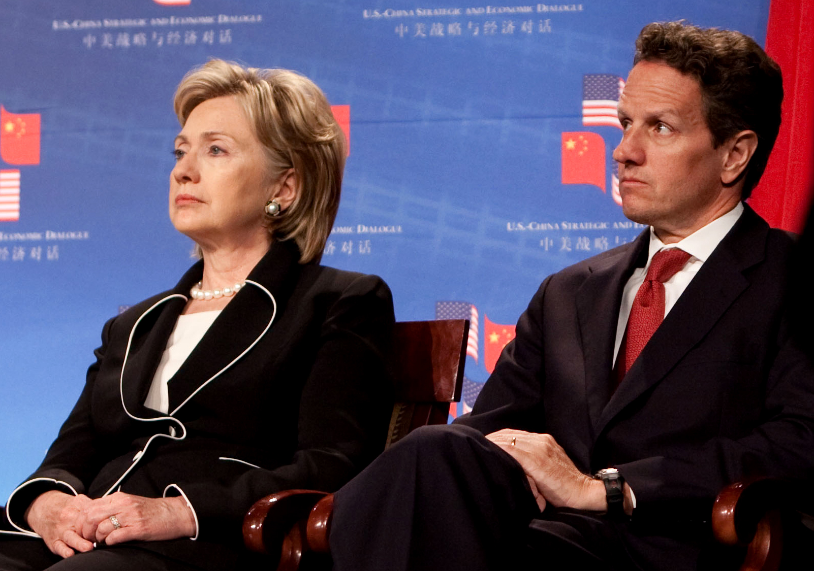 Secretary of State Hillary Clinton and Treasury Secretary Timothy Geithner listen as President Barack Obama addresses the opening session of the first U.S.-China Strategic and Economic Dialogue at the Ronald Reagan Building and International Trade Center in Washington on July 27, 2009.